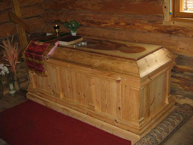 St Pavel Obnorsky tomb with relics